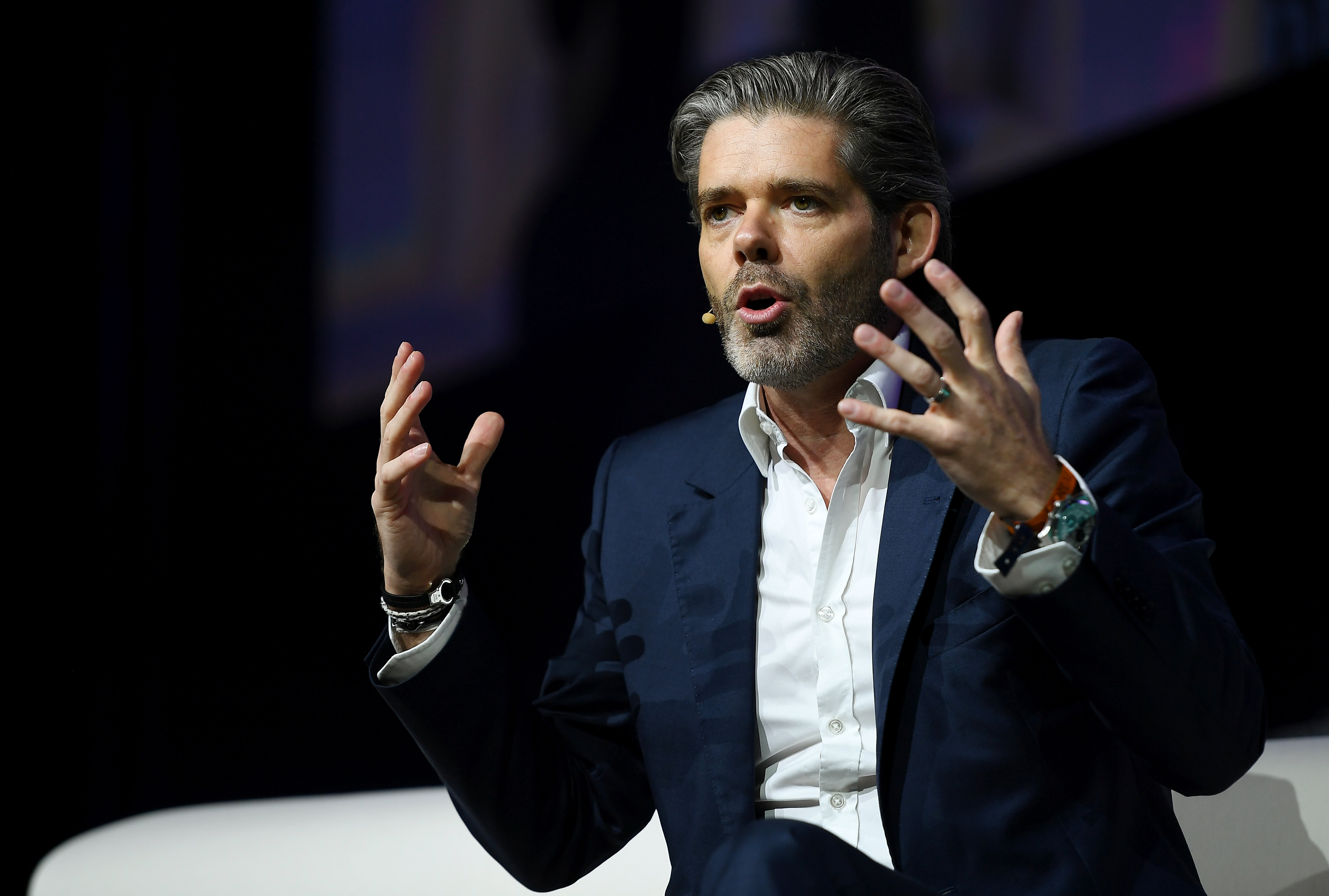 8 November 2018; Michael Peters, CEO, Euronews, on ContentMakers stage during day three of Web Summit 2018 at the Altice Arena in Lisbon, Portugal. Photo by Harry Murphy/Web Summit via Sportsfile